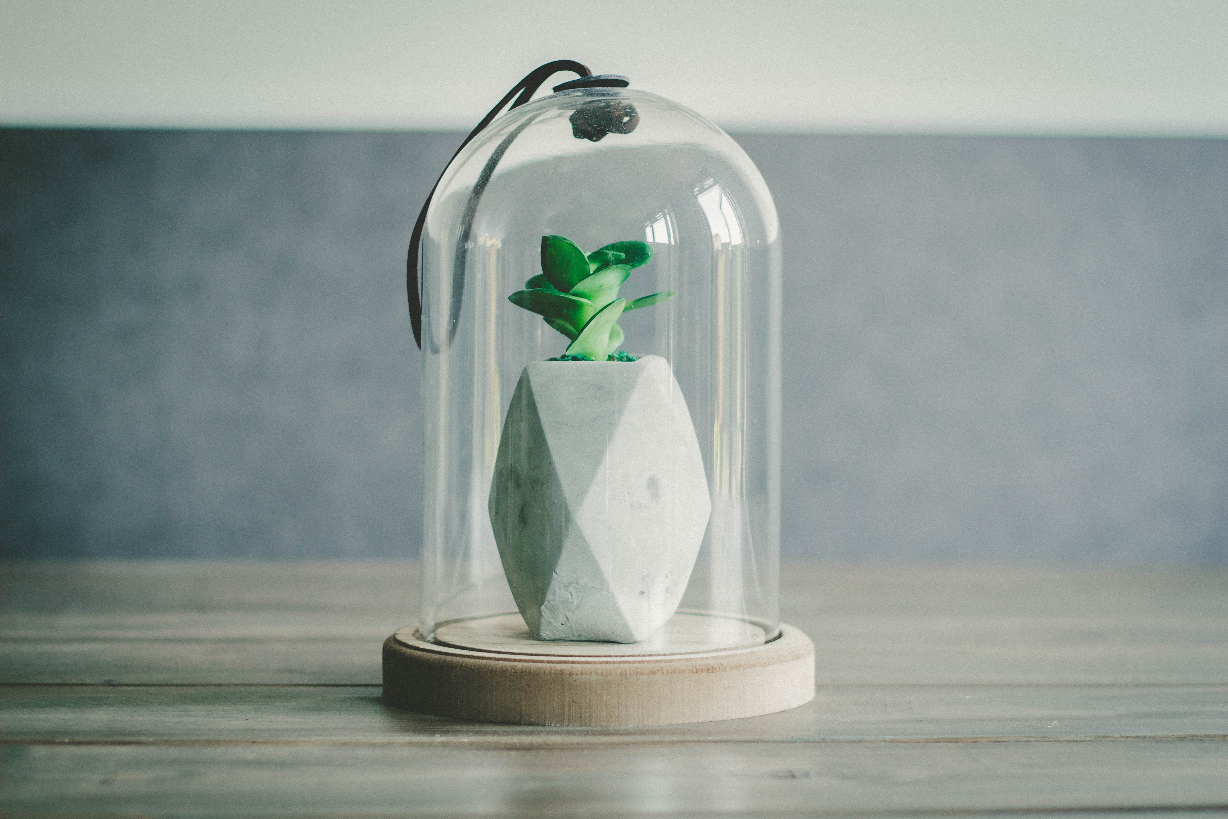 's-Hertogenbosch, Netherlands